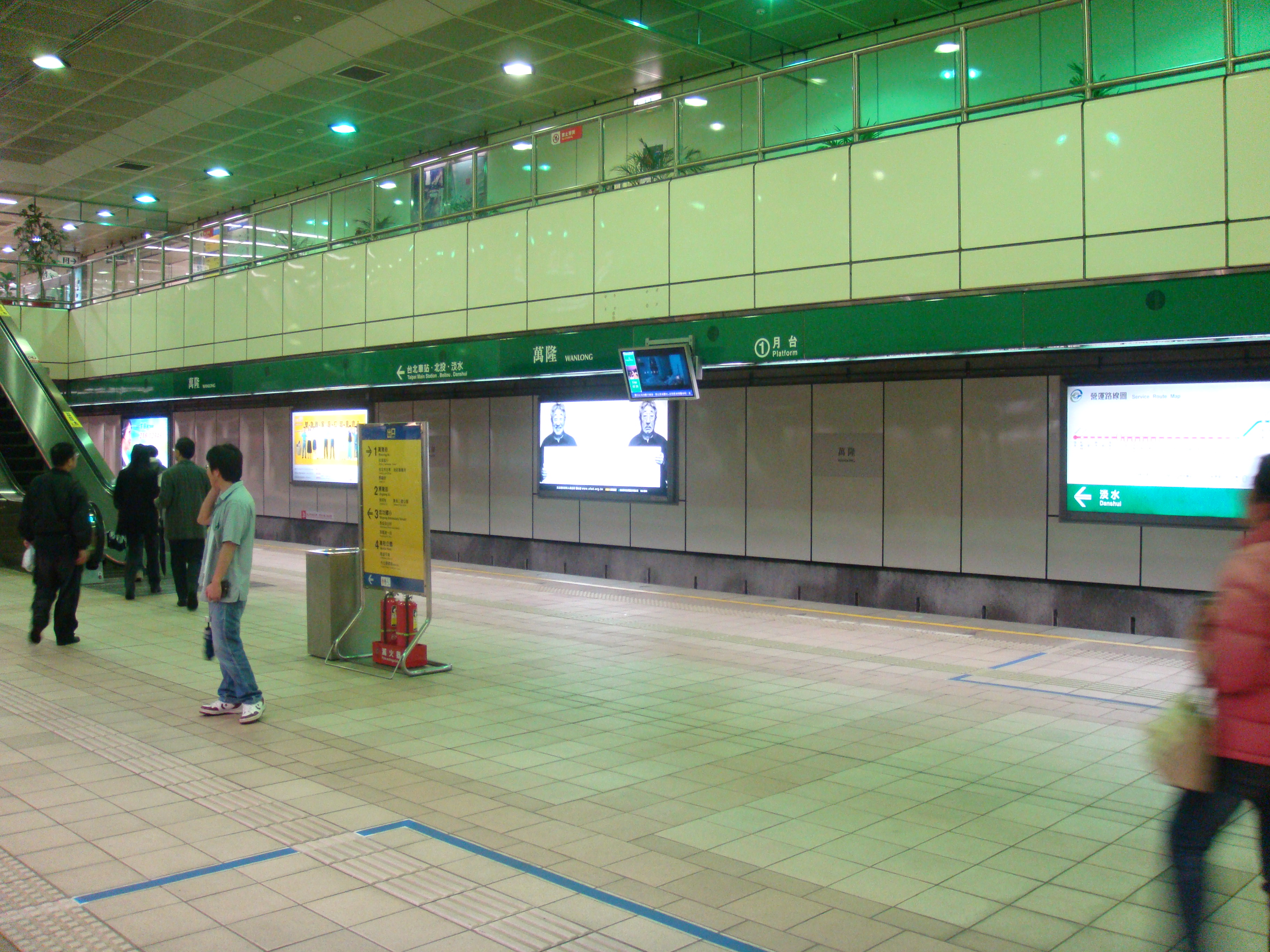 Wanlong Station, Xindian Line, Taipei Metro, Taiwan.